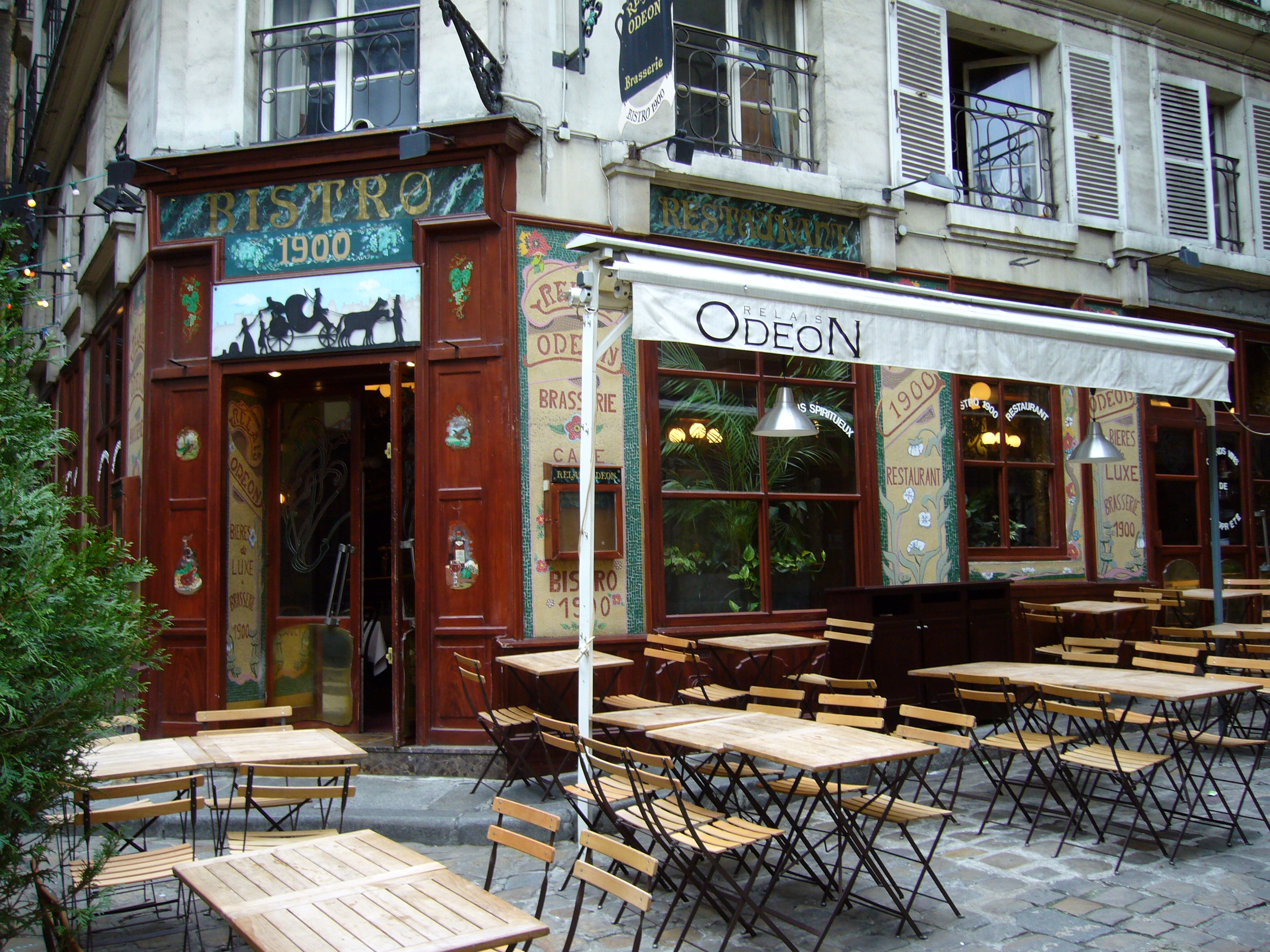 Bistro 1900, Paris, France